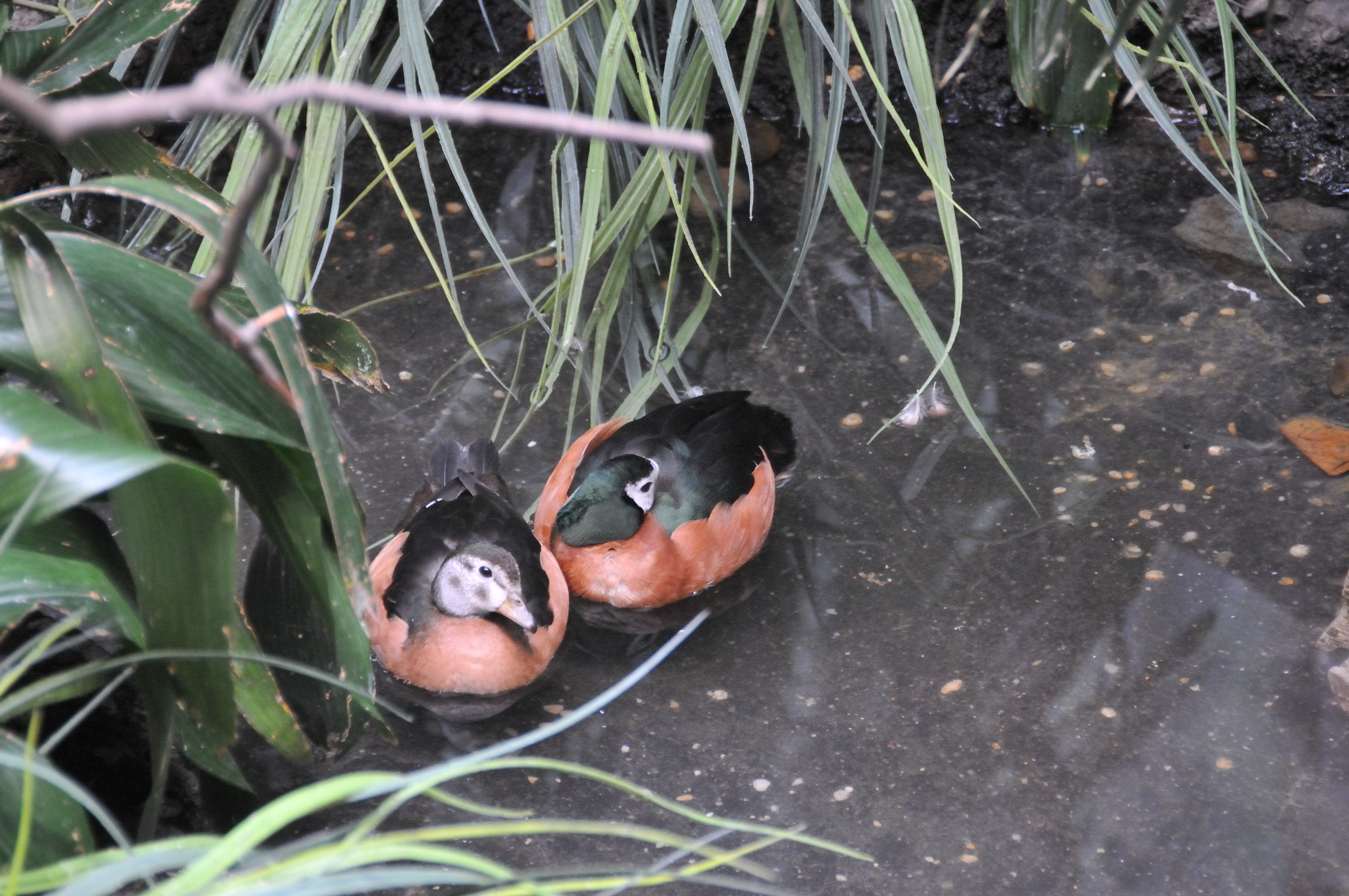 African Pygmy Goose (Nettapus auritus) at Bronx Zoo, New York, USA.